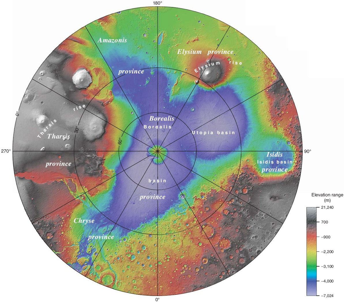 Topography of Mars' northern hemisphere in polar stereographic projection with informal place names.